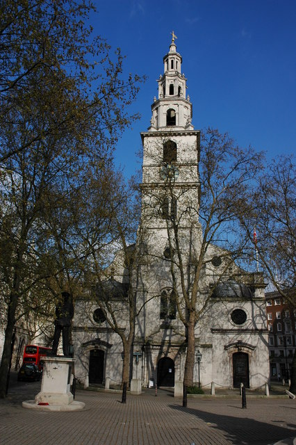 St Clement Danes St Clement Danes is situated on the Strand. The statue on the left is of 'Bomber' Harris.